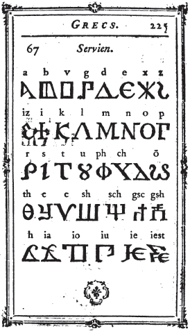 Servien